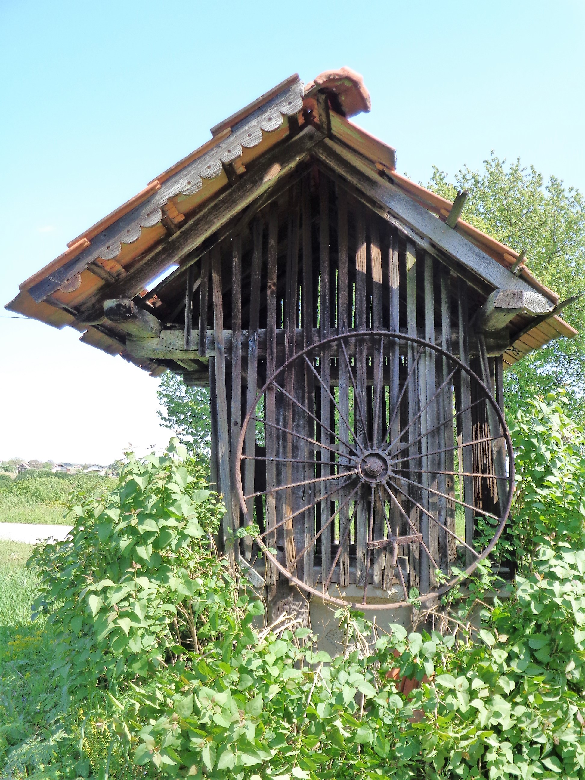 An old dug water well at Dragoslavec village, Sveti Juraj na Bregu Municipality, Medjimurie County, Croatia